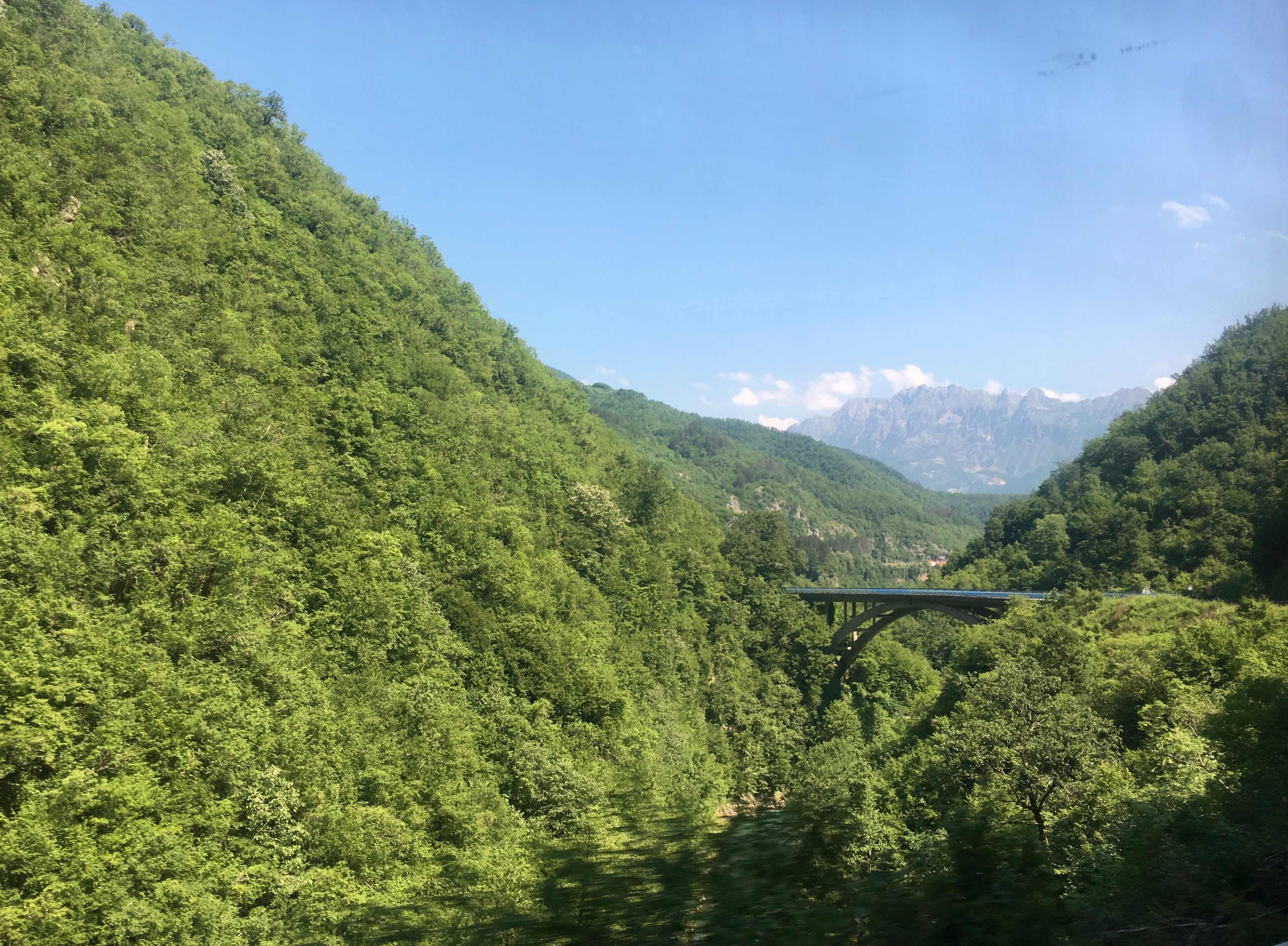 M2 highway goes through Morača or Platije canyon. A bridge of that highway is seen in the picture as well as Sinjajevina montains in the distance.